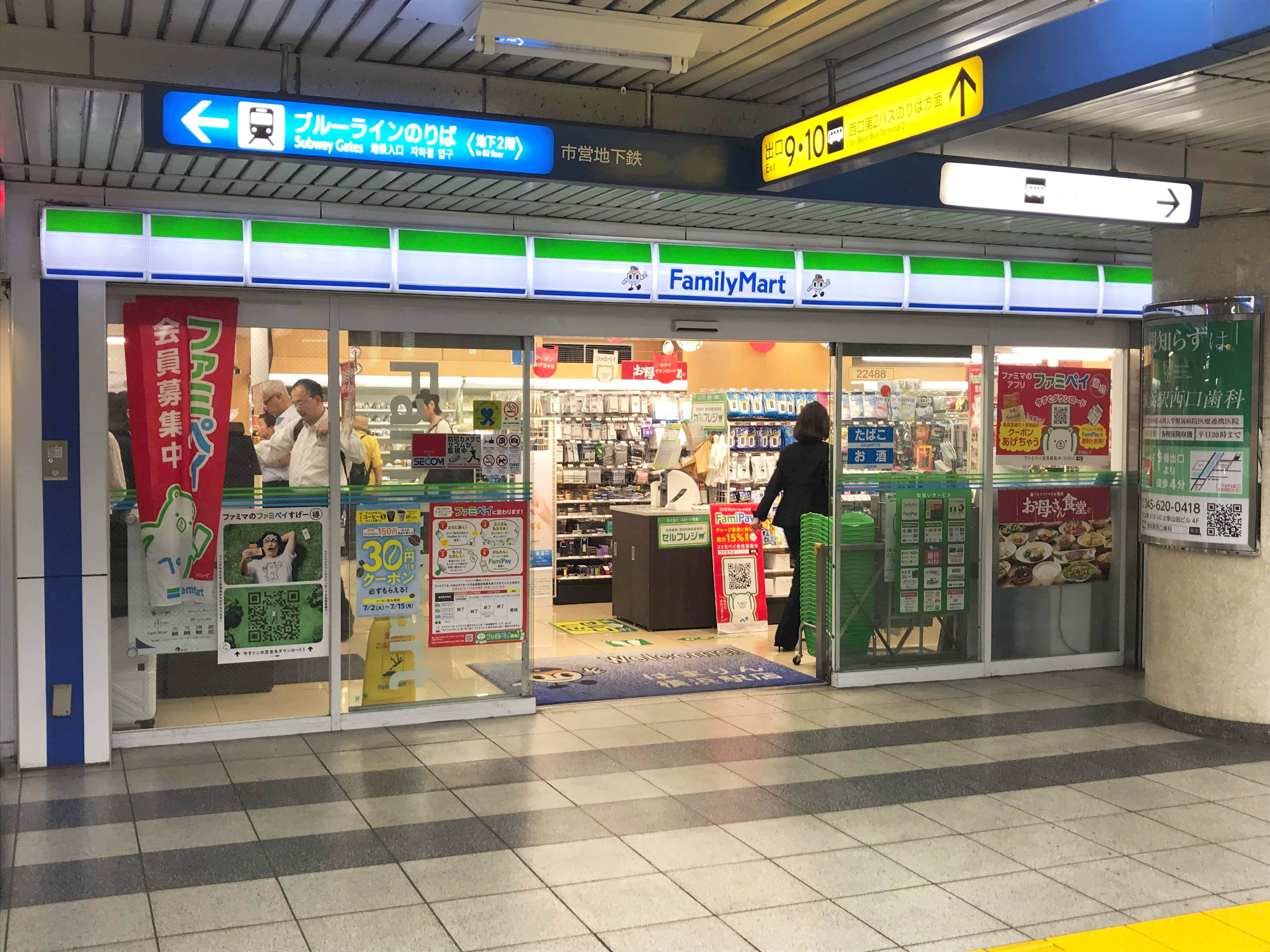 Family Mart "Hamarin Yokohama station" shop on the Yokohama Municipal Subway. On the sign, the mascot of the Yokohama City Transportation Bureau and the name of the shop are drawn with a train emoji.